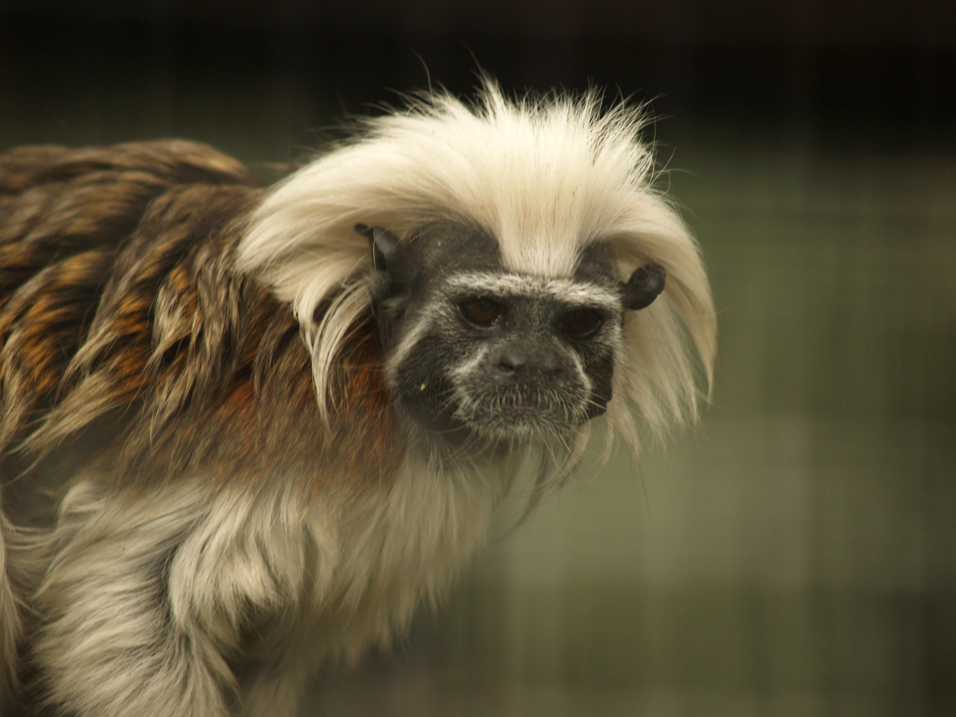 Saguinus oedipus